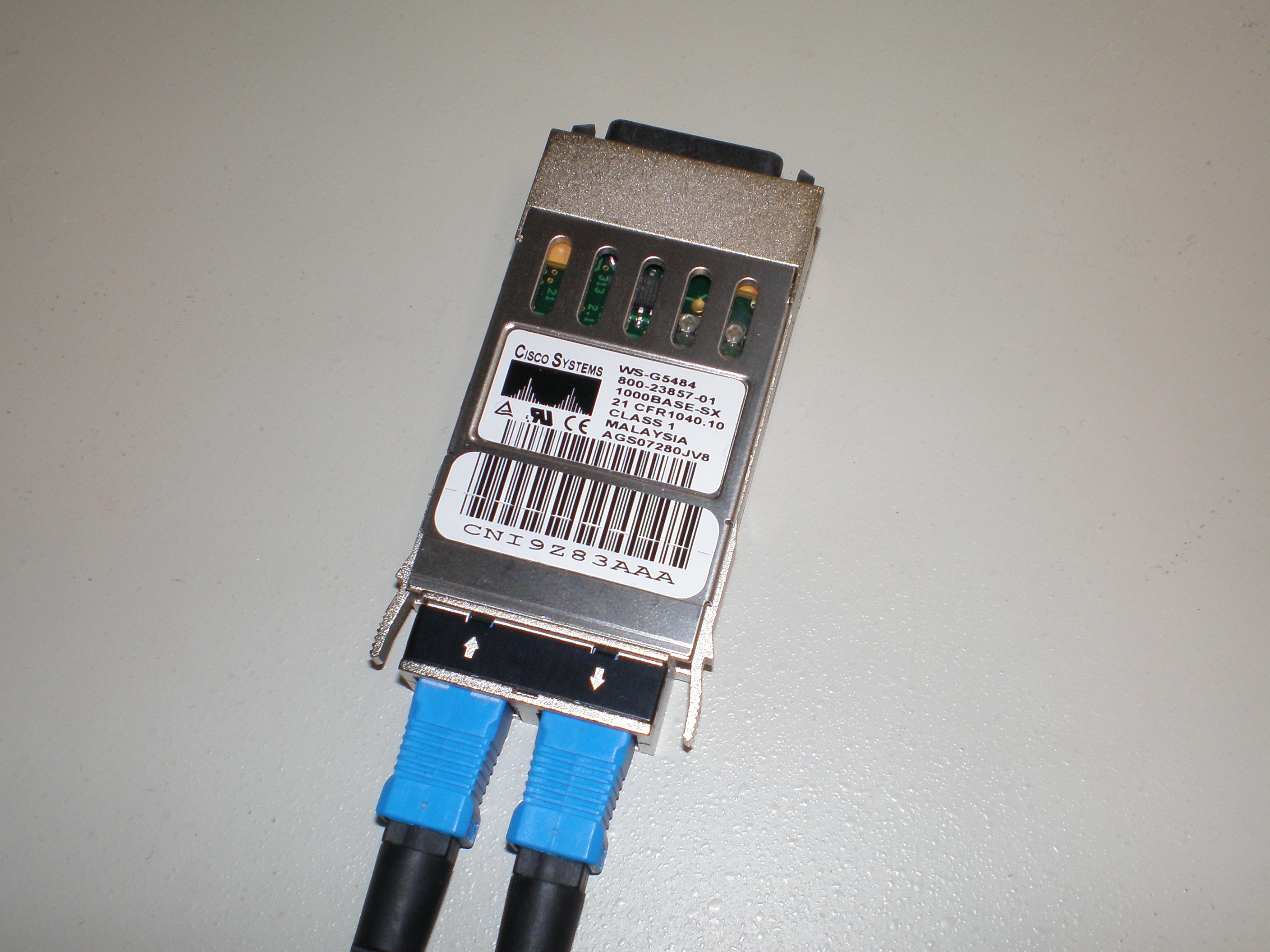 Cisco Gigabit Interface Converter WS-G5484 (for 1000BASE-SX)